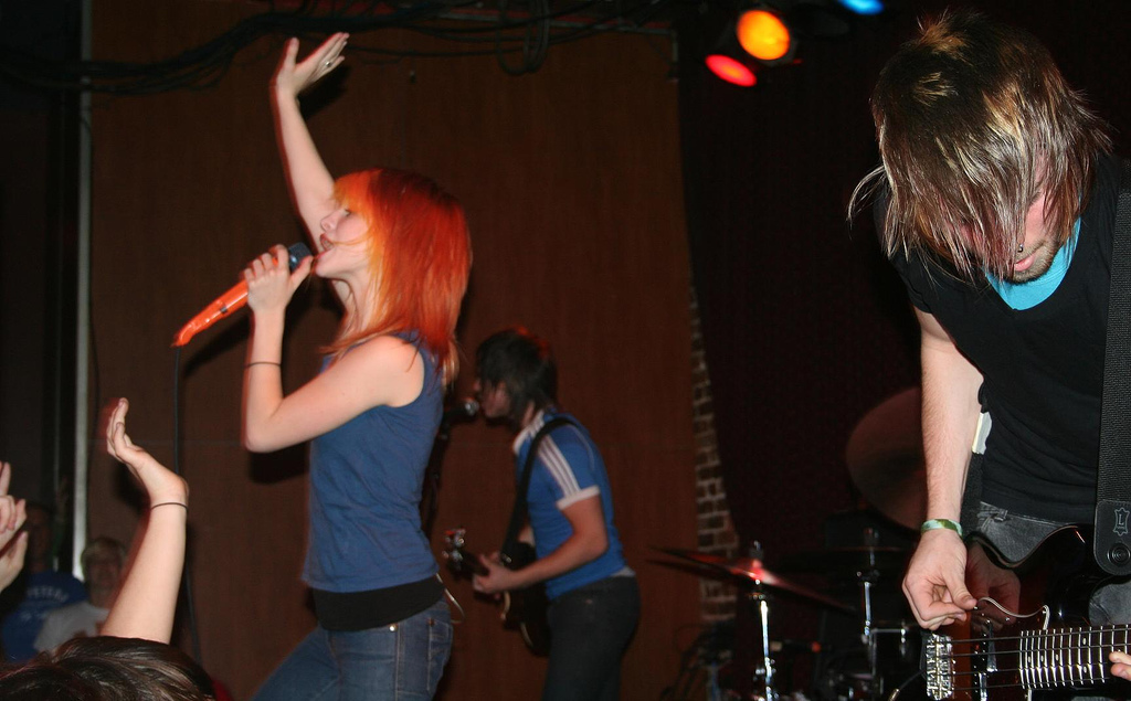 Paramore at The Social, Orlando, Florida on April, 23 2007.